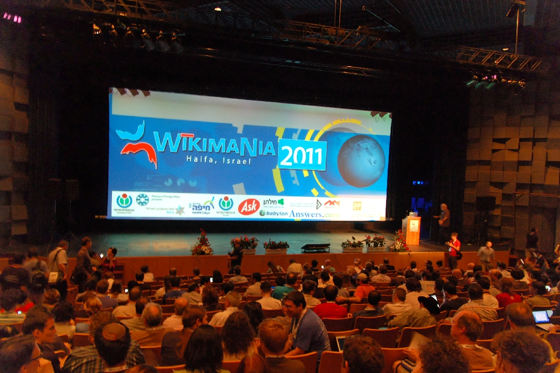 Impressions Wikimania 2011 Haifa